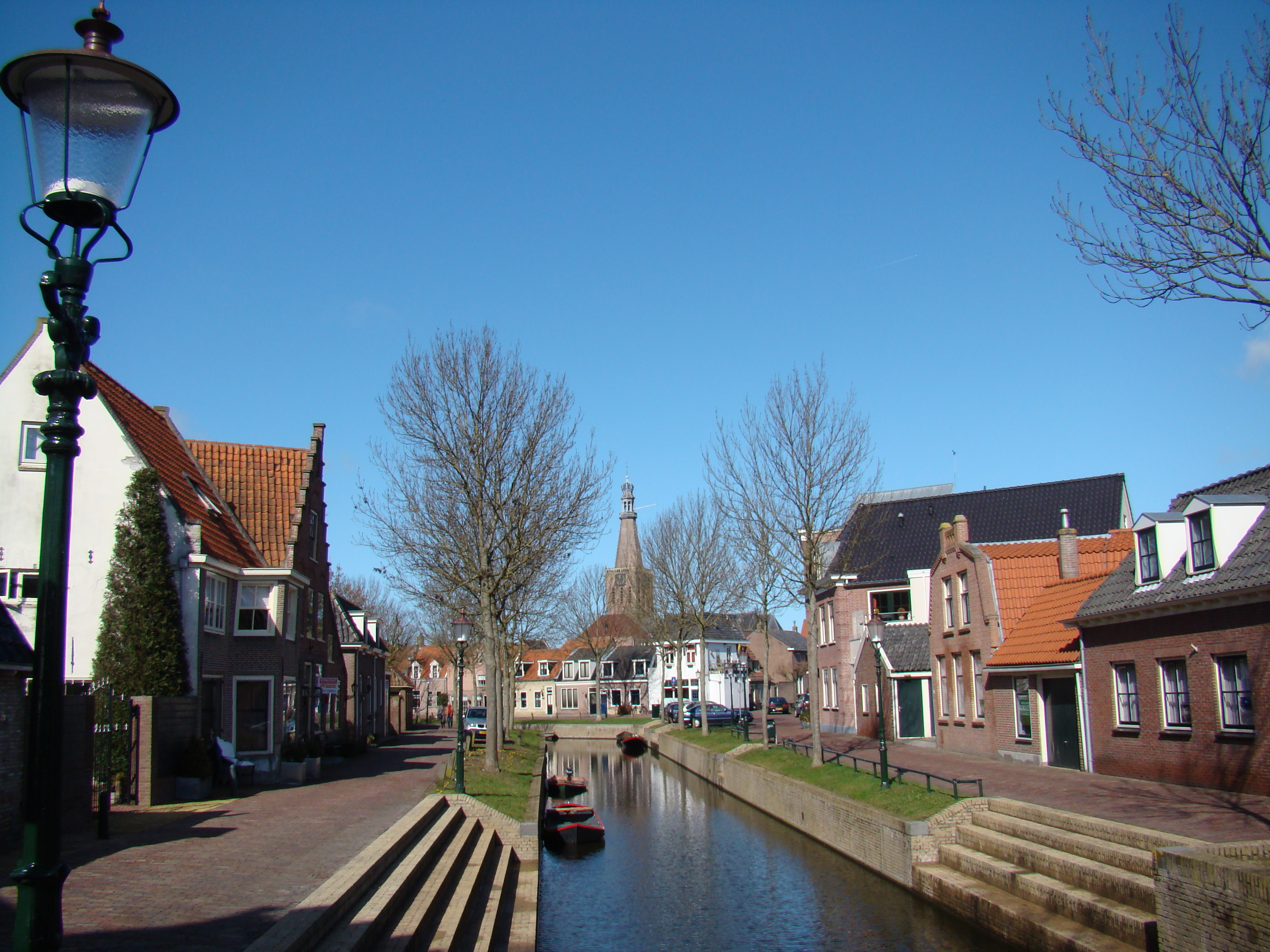 't Achterom, canal in Medemblik, Netherlands